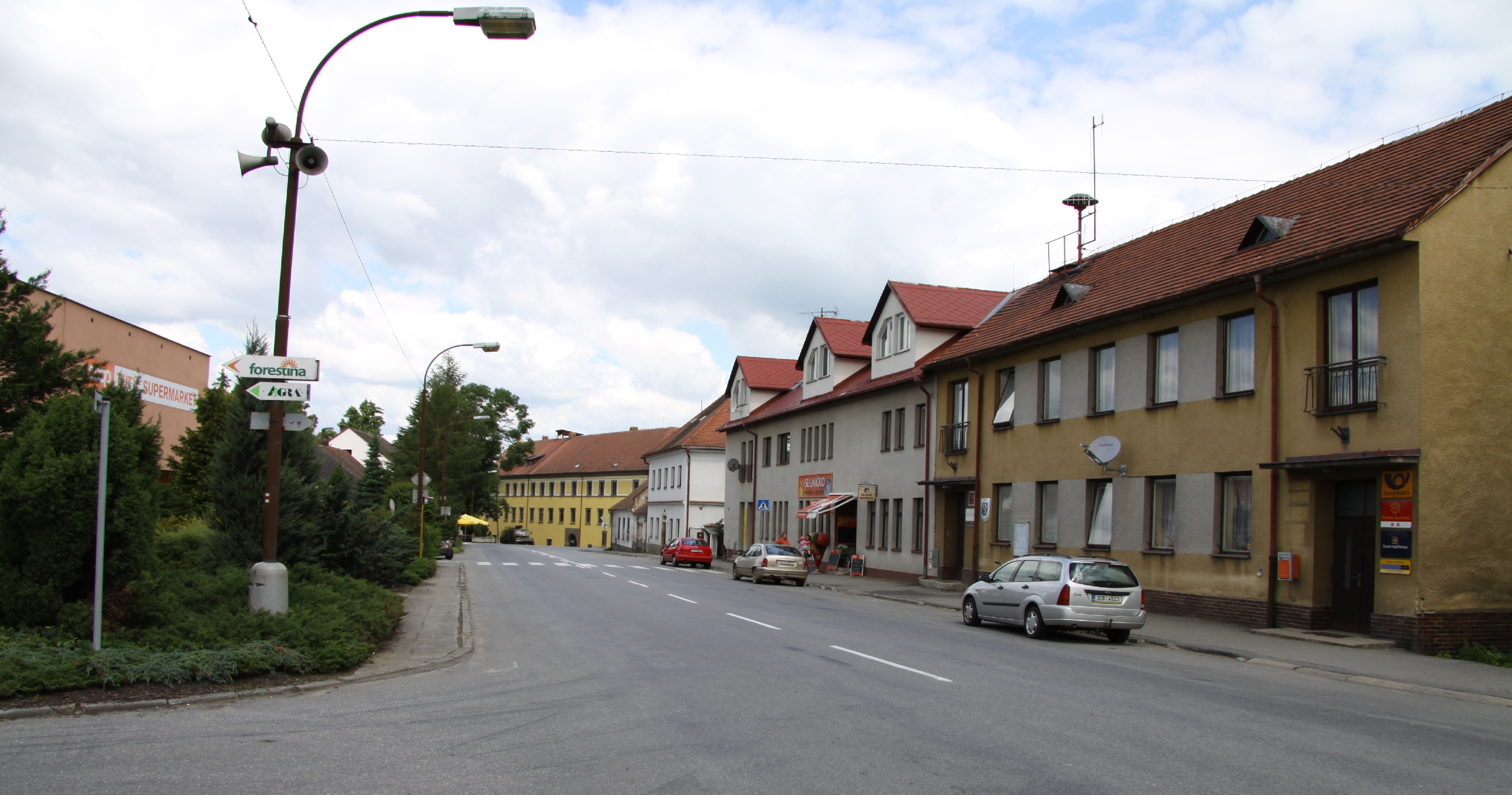 Střelské Hoštice village in Strakonice District, Czech Republic This photograph was taken within the scope of the 'Czech Municipalities Photographs' grant.